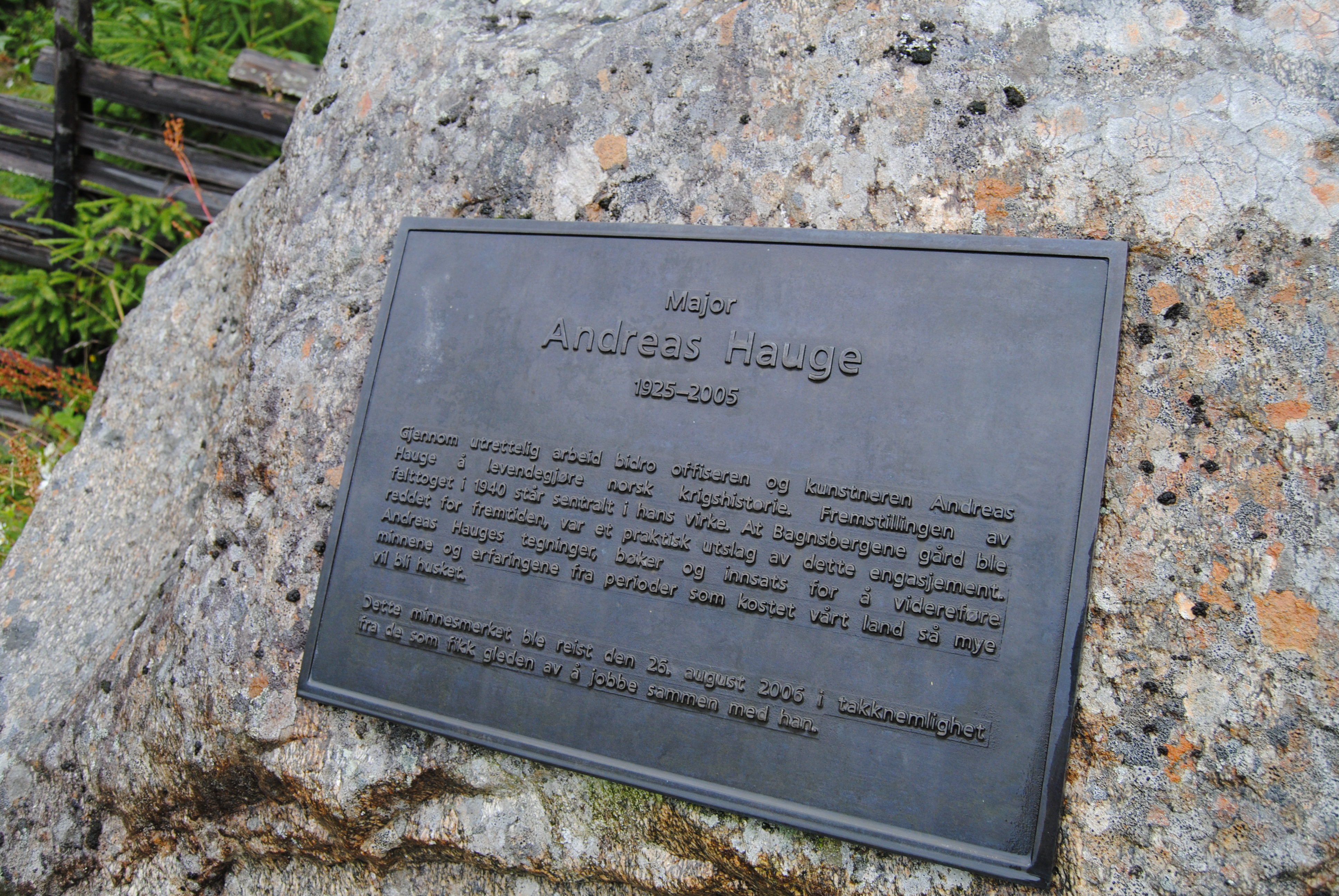 Andreas Hauge memorial at Bagnsbergatn farm, Valdres, Norway.